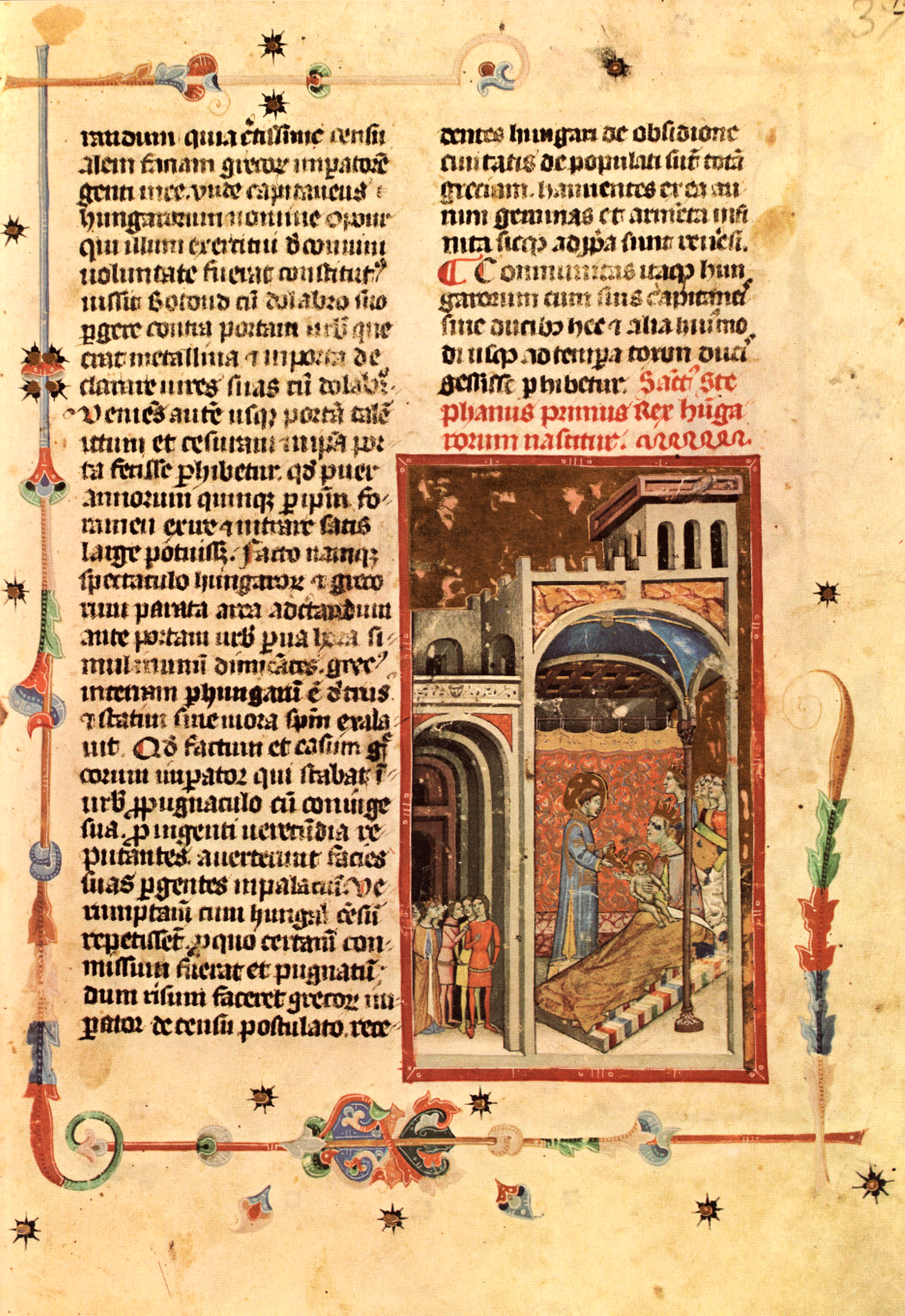 Illuminated Chronicle; Chronicon Pictum; Képes Krónika.